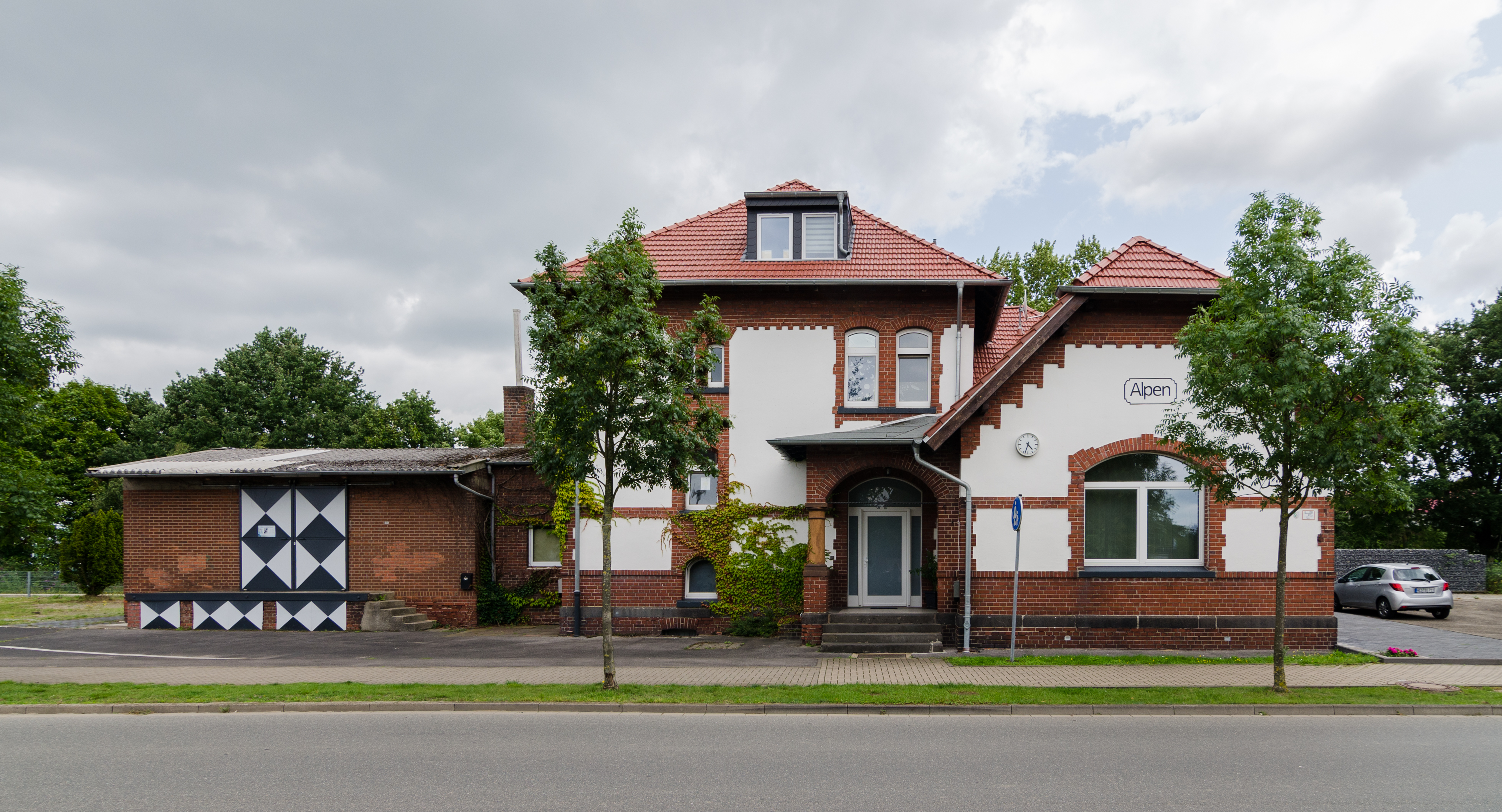 Alpen (North Rhine-Westphalia, Germany) – train station – former station building